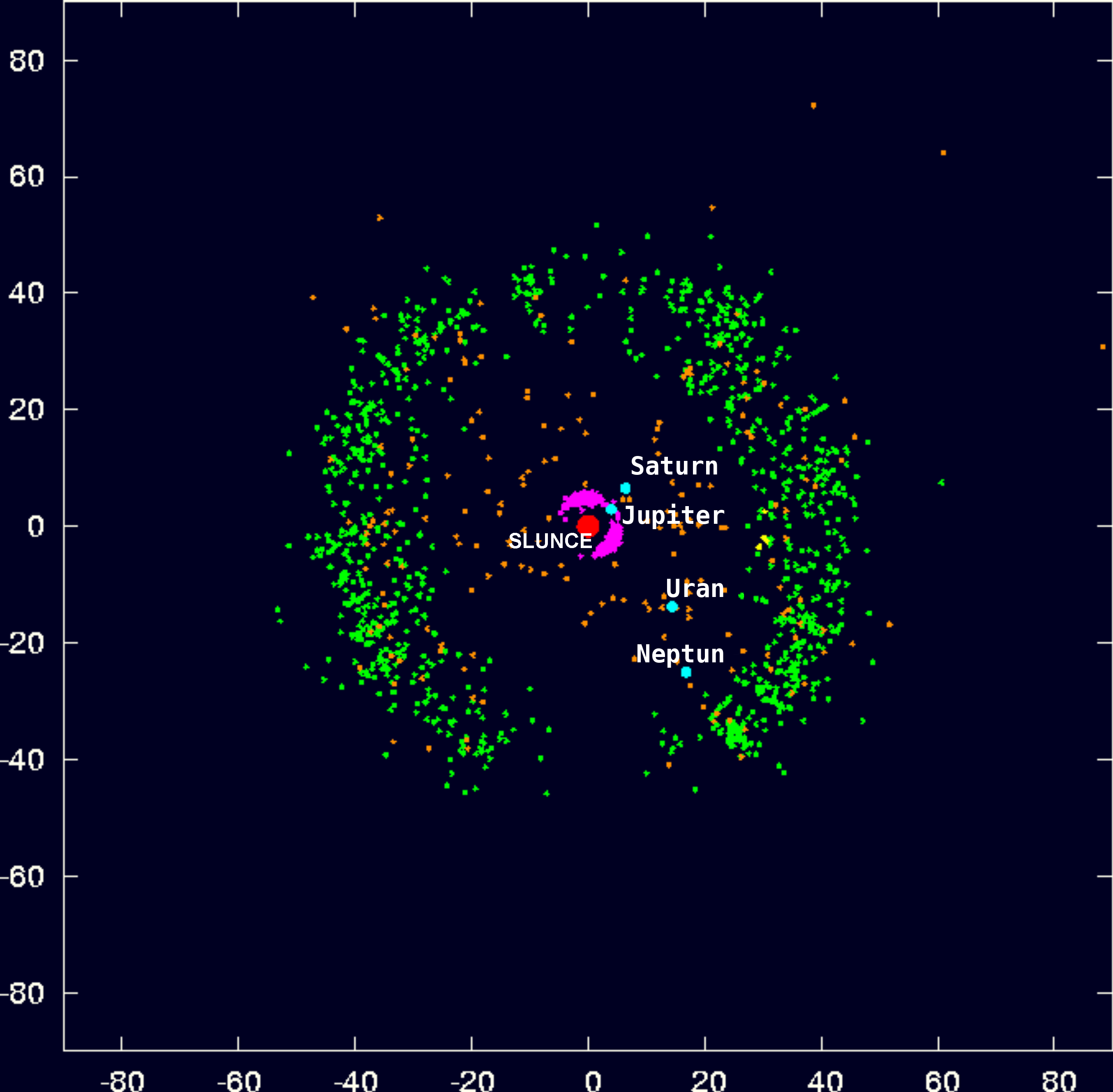 Legend Red = The Sun Aquamarine = Giant Planet Green = Kuiper belt object Orange = Scattered disc object or Centaur Pink = Trojan of Jupiter Yellow = Trojan of Neptune Axes list distances in AU, projected onto the ecliptic, with ecliptic longitude zero being to the right, along the "x" axis). Positions are accurate for January 1st, 2000 (J2000 epoch) with some caveats: For planets, positions should be exact. For minor bodies, positions are extrapolated from other epochs assuming purely Keplerian motion. As all data is from an epoch between 1993 and 2007, this should be a reasonable approximation. Data from the Minor Planet Center[1] or Murray and Dermott[2] as needed. In the Kuiper Belt, radial "Spokes" of higher density, or gaps in particular directions are due to observational bias (i.e. where objects were searched for), rather than any real physical structure. References ↑ The MPC Orbit (MPCORB) Database. ↑ Carl D. Murray and Stanley F. Dermott (1999) Solar System Dynamics, Cambridge University Press ISBN: 0 521 57295.9. ISBN: 0 521 57295.9